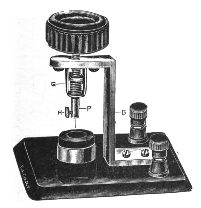 An electrolytic detector, a primitive device used to demodulate radio waves in early radio receivers around the turn of the century. It consists of a metal cup containing a dilute solution of nitric acid and a fine platinum wire on an adjustable arm with the tip dipping in the acid.